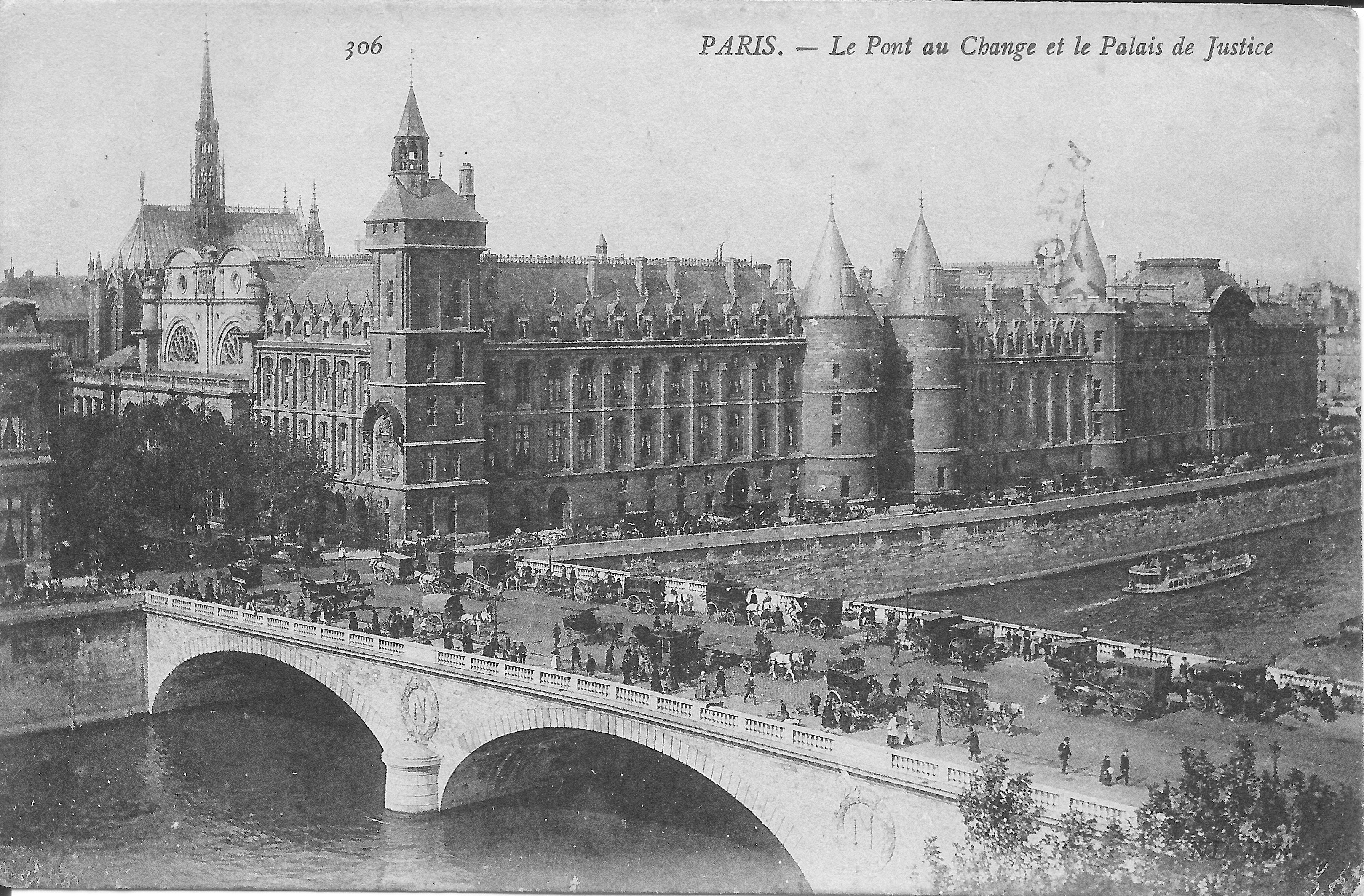 Postcard of France - Department of Seine (75) - Paris, Pont au Change (bridge with the exchange) and law courts - unknown Year, approximately after 1900